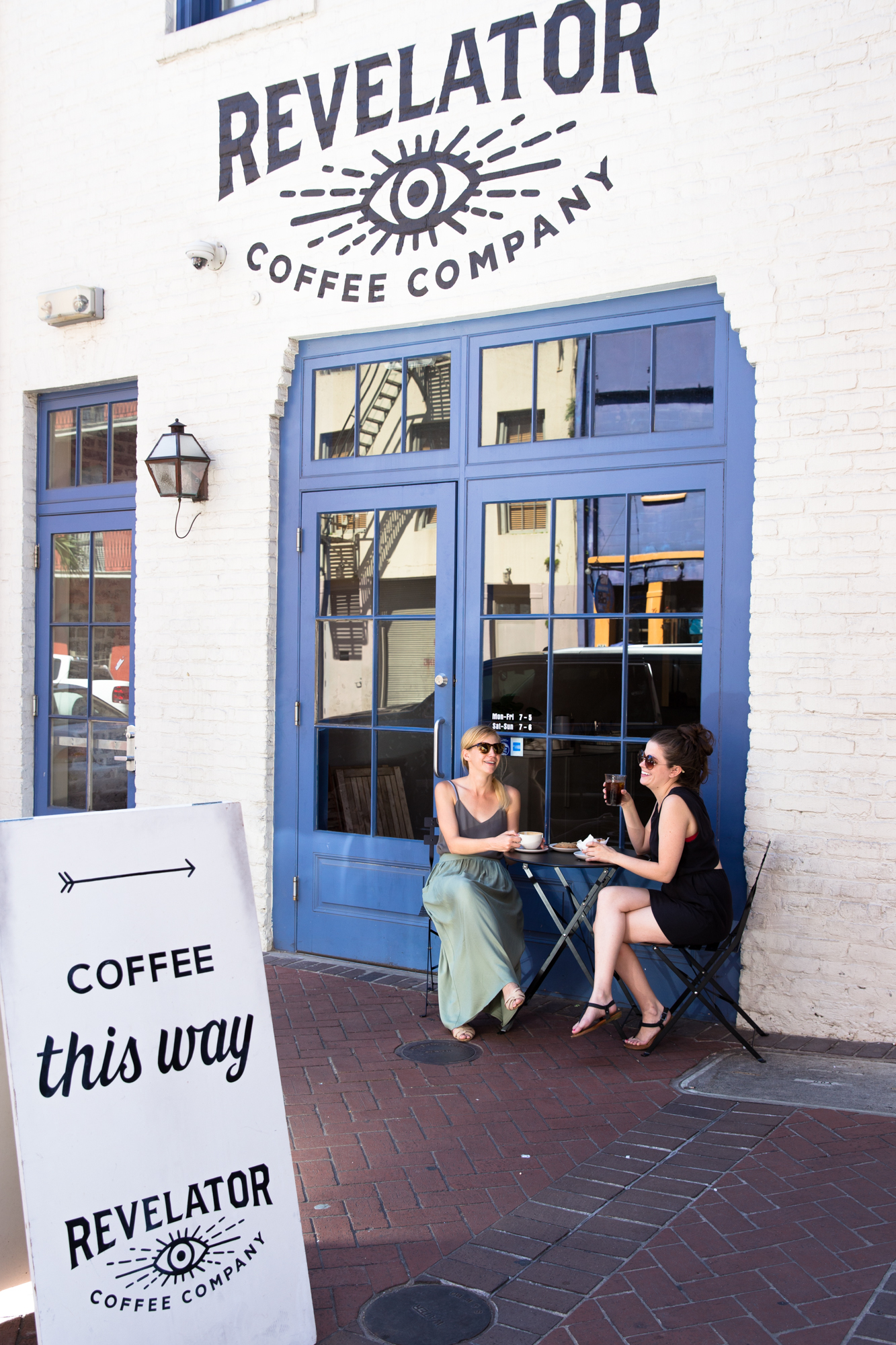 Revelator's New Orleans store-front